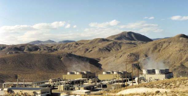 The United States Navy's Coso Geothermal Powerplant in the Mojave Desert at the China Lake Navy Base, California.